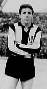 Ahmet Özacar, Turkish international footballer pictured while playing at Beşiktaş J.K. (Turkey) in 1966.